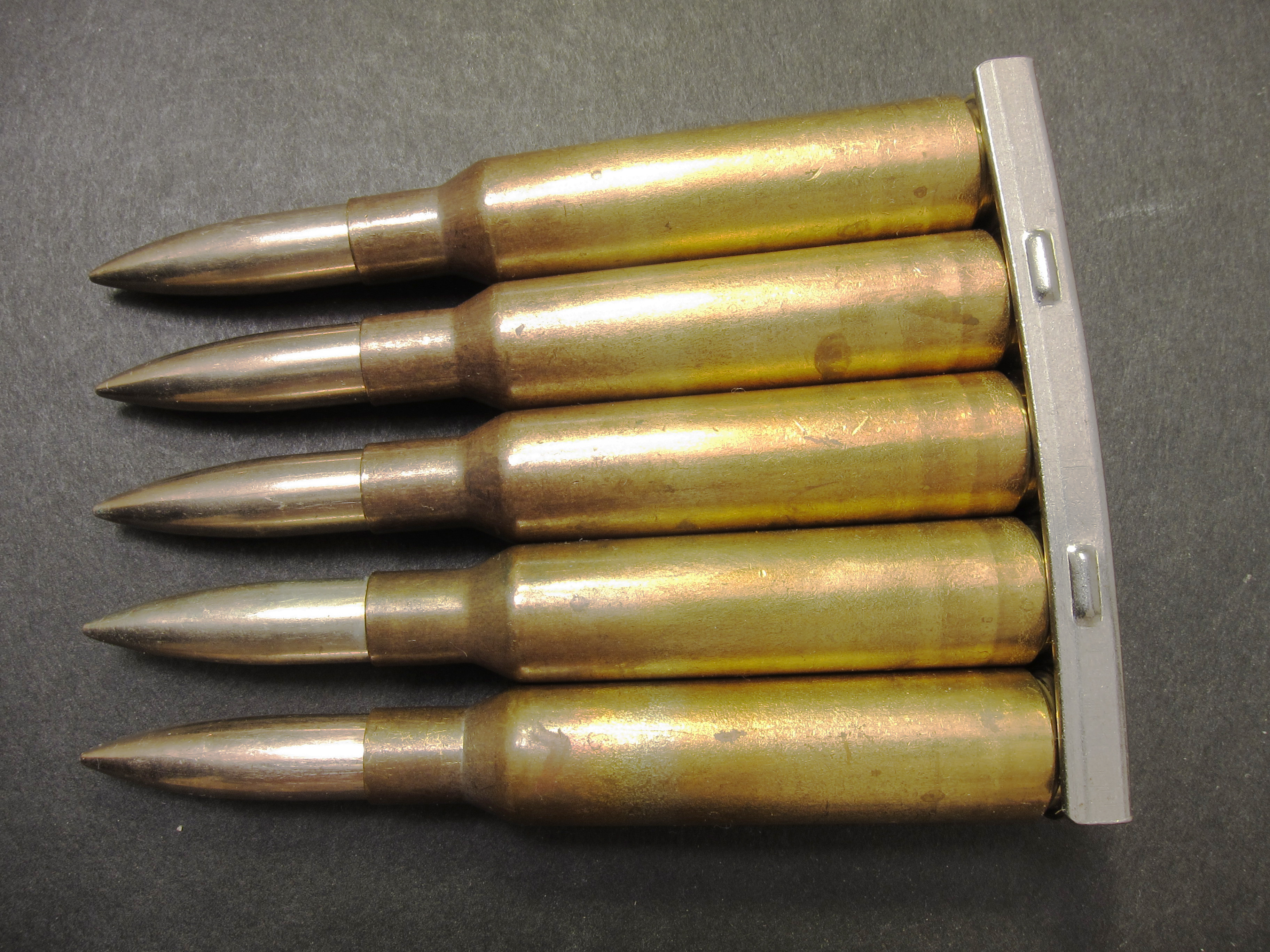 Swedish Mauser stripper clip loaded with Swedish 6.5×55mm skarp patron m/94 prickskytte m/41 (live cartridge m/94 sniping m/41) ammunition loaded with a 9.1 grams (140 gr) spitzer bullet (D-projectile). Besides a pointed nose the m/41 D-projectile also had a boat tail. Originally developed for the m/41 sniper rifle, this new cartridge replaced the m/94 ammunition loaded with the M/94 projectile for general use. This surplus FMJ spitzer ammunition was produced in 1976 by Norma.